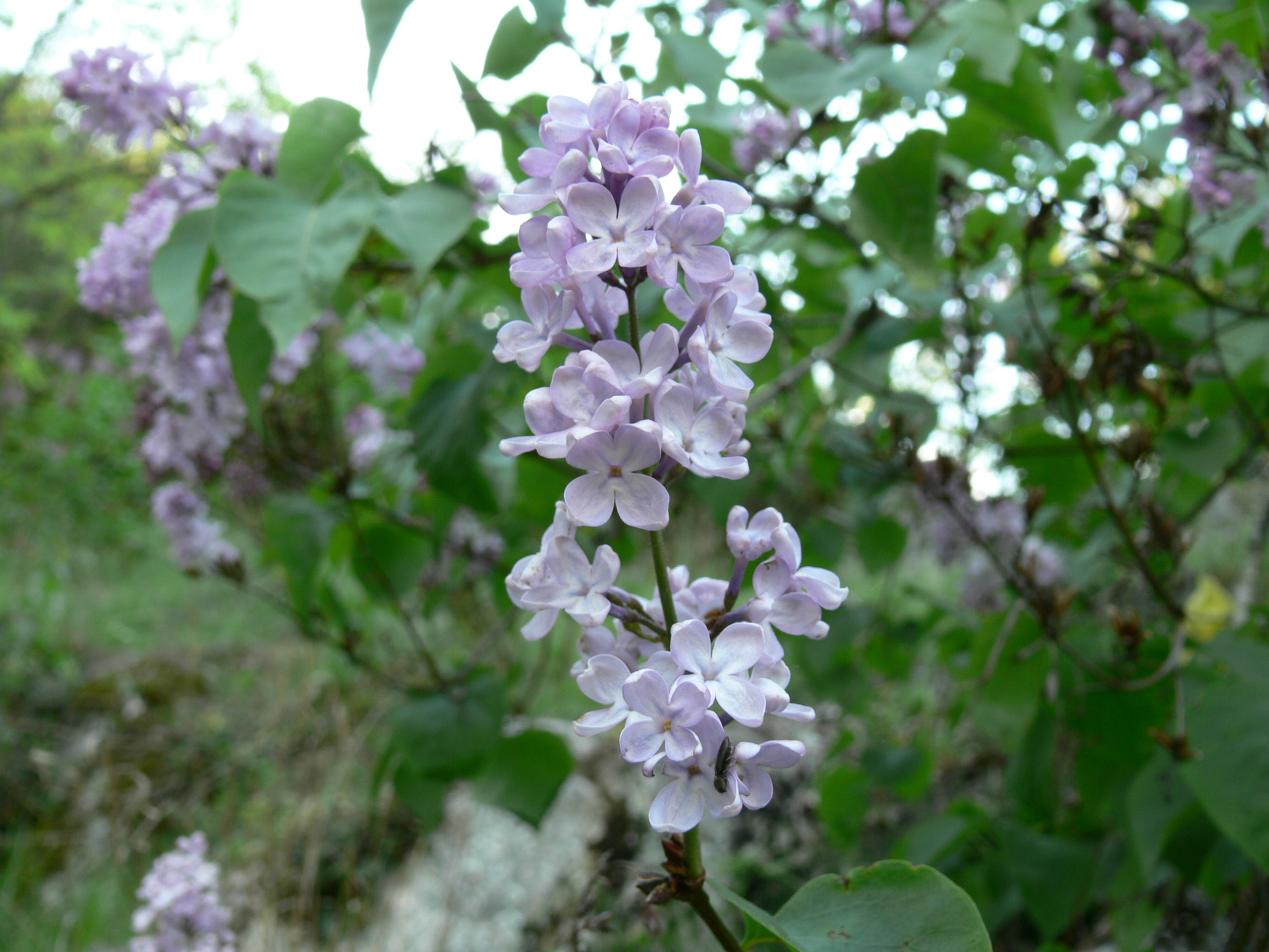 Natural Syringa vulgaris in flower, Bulgaria